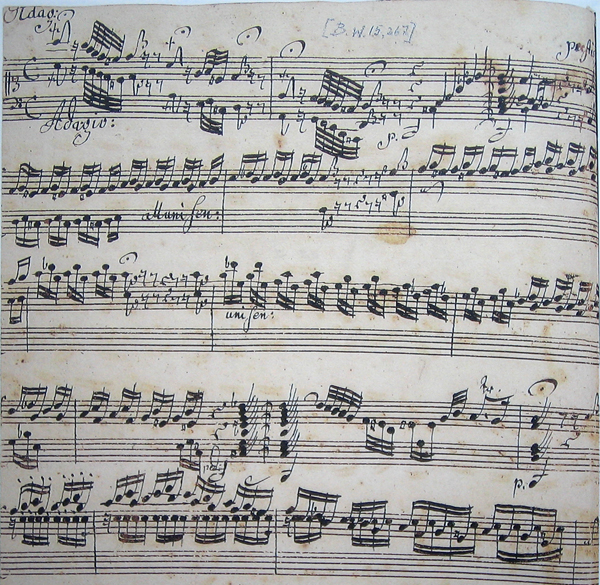 Fragment of the first page of Johannes Ringk's copy of Toccata and Fugue in D minor, BWV 565. Staatsbibliothek zu Berlin — Preußischer Kulturbesitz — Handschrift Mus.ms. Bach P 595.